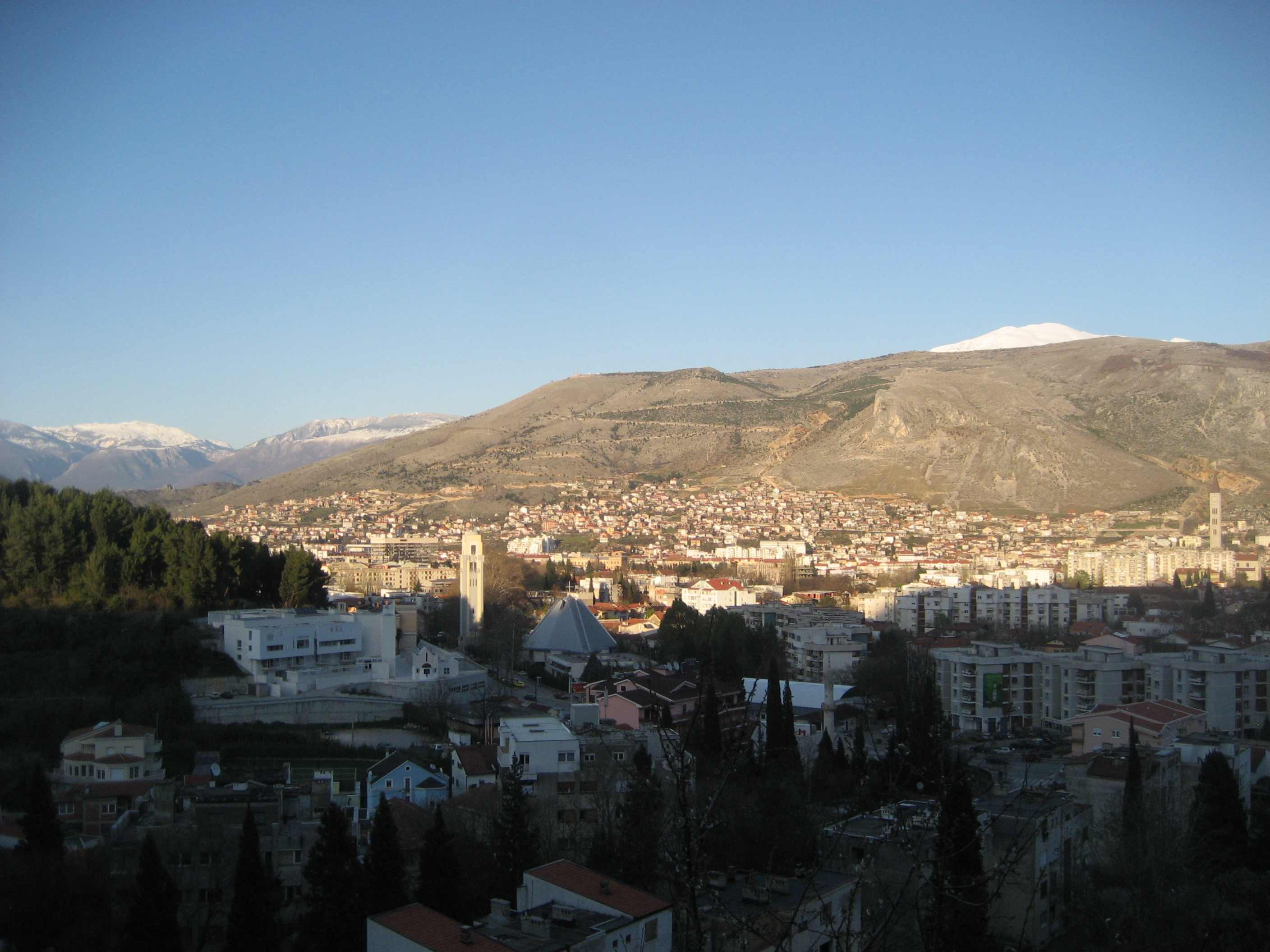 Modern part of Mostar